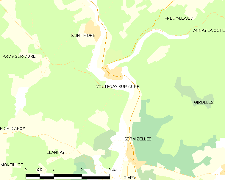 Map of French municipality Voutenay-sur-Cure